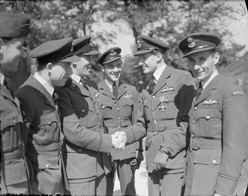 Royal Air Force Fighter Command, 1939-1945. Flying Officer C "Cheval" Lallemant, a Belgian pilot of No 609 Squadron RAF receiving the congratulations of members of his squadron after being decorated with the DFC at Manston, Kent. Lallemant finished his first tour of operations shortly afterwards. Later, in mid-1944, he returned to 609 Squadron as its commanding officer.